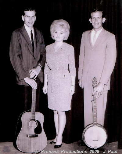 Larry Mathis, Dolly Parton, Bud Brewster - The Pick'n Grin Bluegrass Band